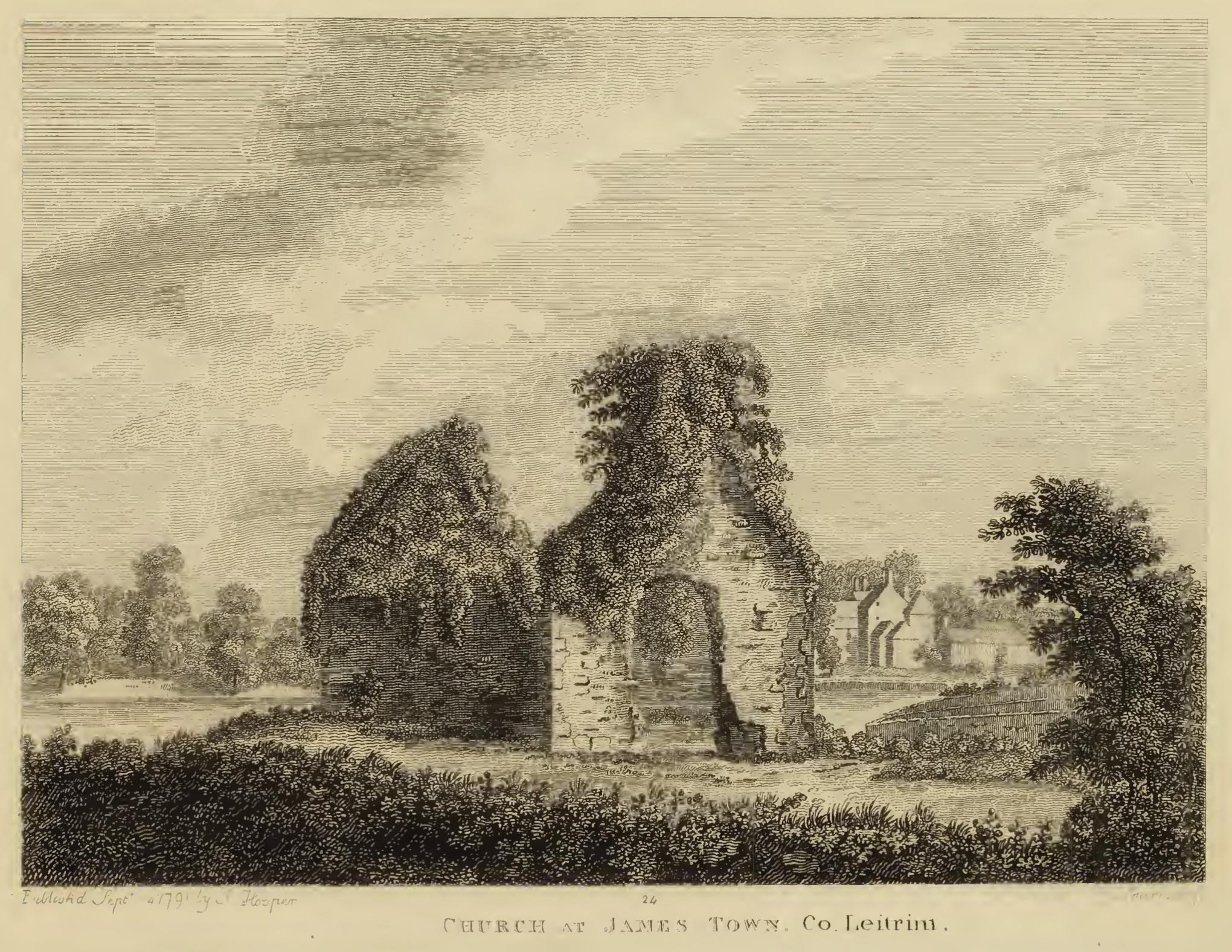 "This obscure Franciscan friary is extremely remarkable in the annals of Ireland, for being the place where the Roman Catholic prelates assembled, August 6th, 1650. The forces of parliament had been every where successful, and a gloomy darkness hungover the affairs of the king and Catholics. The clergy, without consulting the government, met at Jamestown town, and nominated commissioners to enter into a treaty with any foreign power, who was ready to aid them .. their names and titles: Hugh O'Reilly, Archbilhop of Armagh. John Burk, Archbishop of Tuam, John Culenan, Bifhop of Raphoe, Eugene Swiny, Bifhop of Kilmore, Francis Kirwan, Bishop of Killala, Nicholas French, Bishop of Ferns, and Procter for Thomas Fleming, Archbishop of Dublin, Antony Geoghegan, Bishop of Clonmacnoise, Walter Lynch, Bishop of Clonfert, and Proxy for Edmund O'Dempfey, Bishop of Leighlin, Arthur Magines, Bishop of Down and Connor, and Proxy for the Bishop of Dromore, Hugh Burk, Bishop of Kilmacdough. William Burk, Provincial of the Franciscans, James, Abbot of Cong, and Commissionary of the Canon's Regular of St. Augustian, Thomas Keran, Abbot of Boyle, Charles Kelly, Dean of Tuam. Bernard Egan, Proctor for the Provincial of the Dominicans. Richard OKelly, Prior of Rathbran, Thady Egan, Provost of Tuam, Luke Plunket, Apostolic Prothonotary, Rector of the College of Killeen in Meath, and Chaplain to the Leinister army, John Dowly, Abbot of Kilmanock, and one of the Proctors for the chapter and clergy of Tuam, Walter Euos, Apostolic Prothonotary, Treasurer of Ferns, and Proxy for the Provoft of the Collegiate Church of Galway."